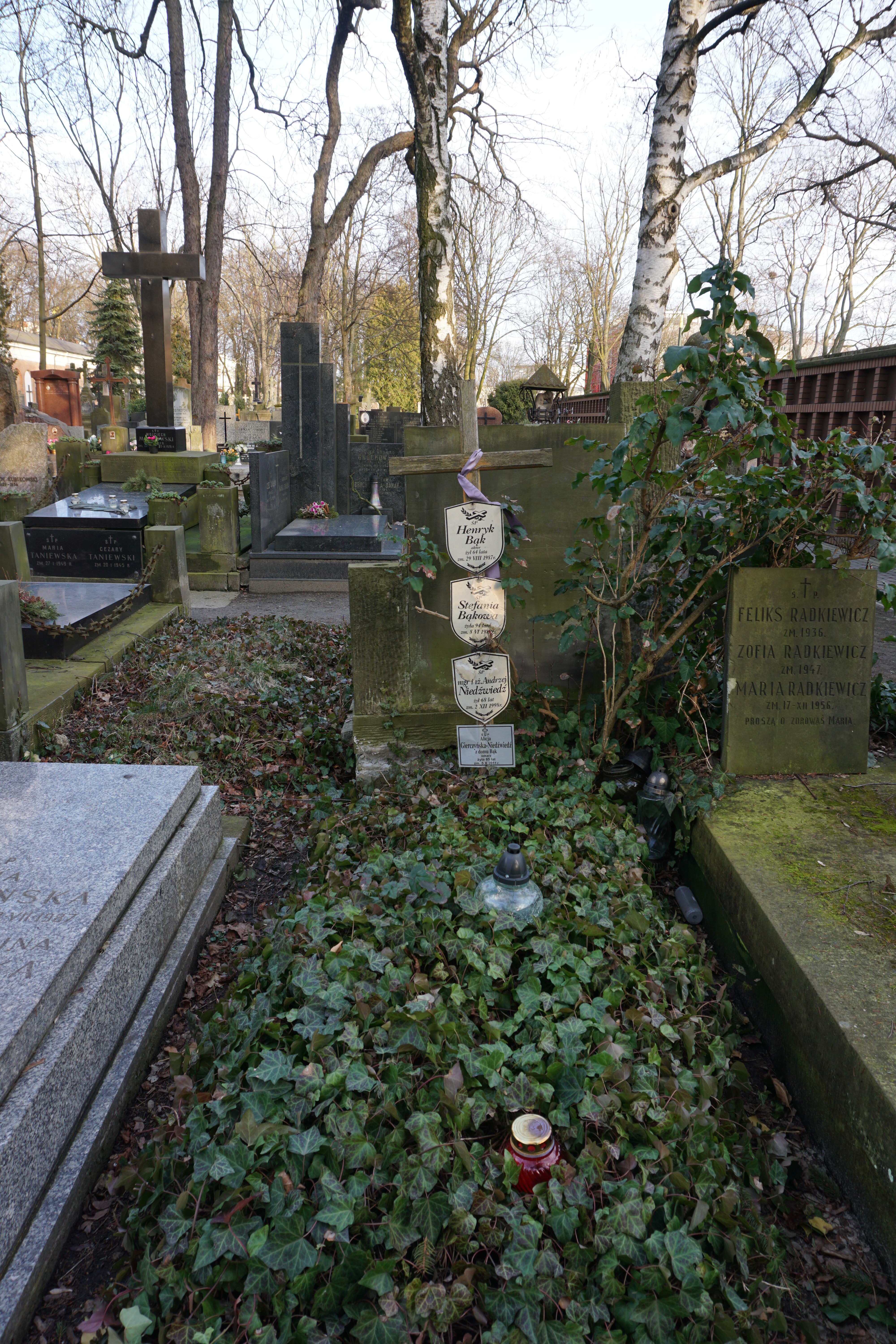 The grave of Henryk Bąk at the Powązki Cemetery (section 169, row 4, grave 25)